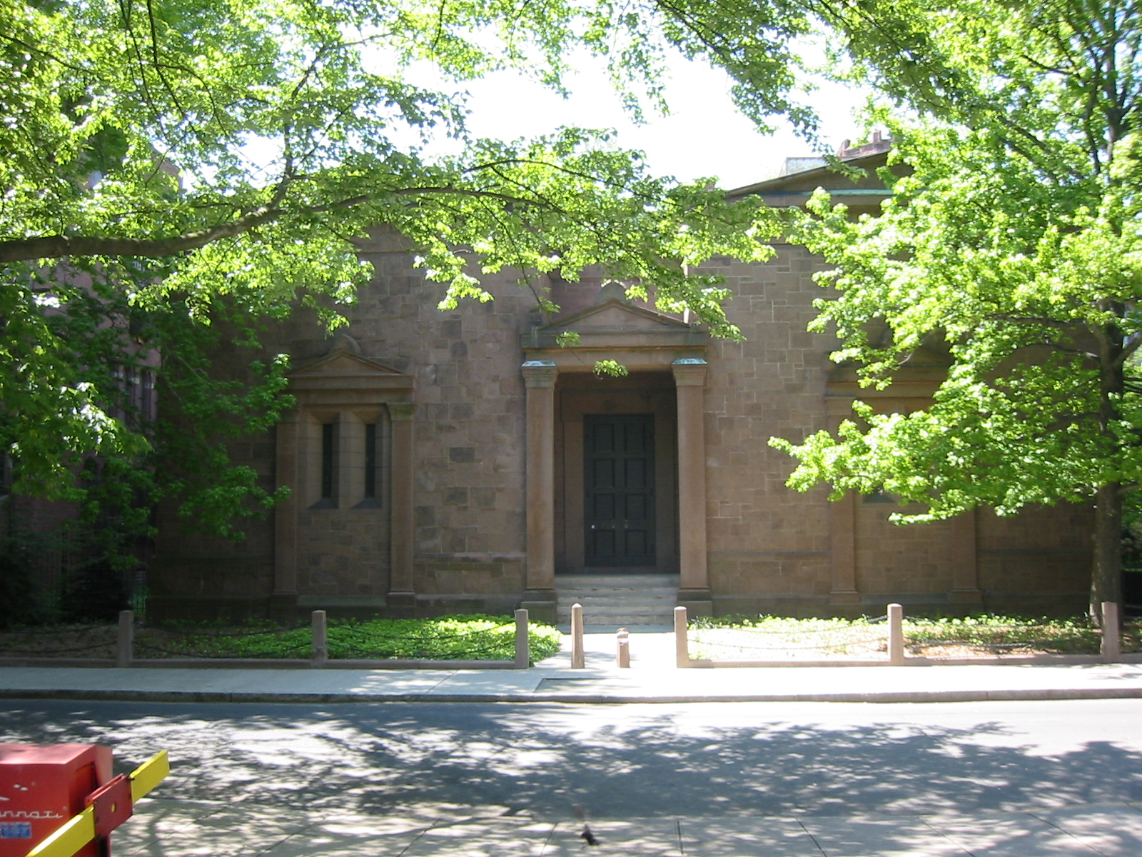 The Skull and bones tomb at Yale University